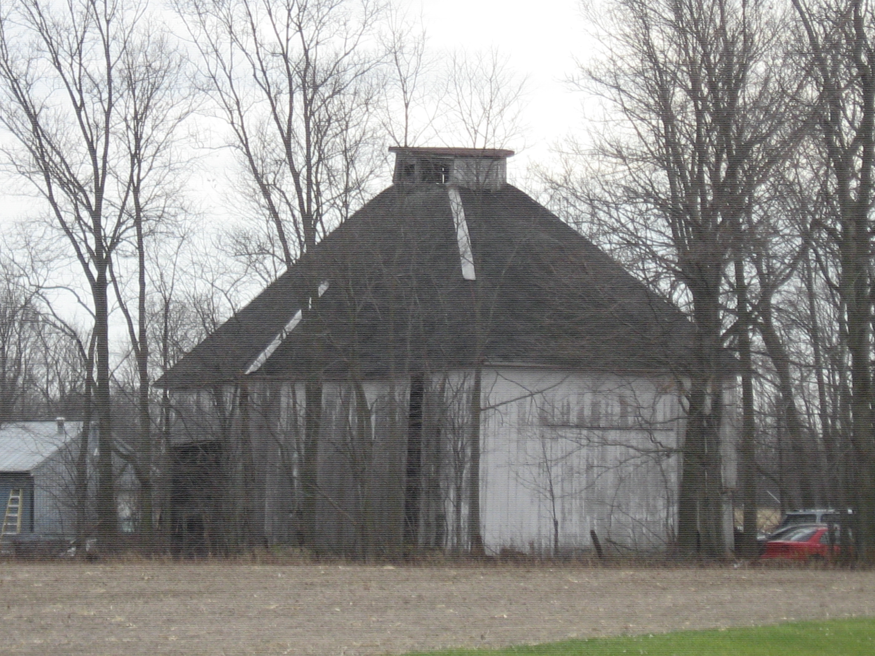 Northern side of the Ben Colter Polygonal Barn, located along State Road 101 near Pleasant Mills in St. Marys Township, Adams County, Indiana, United States. Built in 1907, it is listed on the National Register of Historic Places.